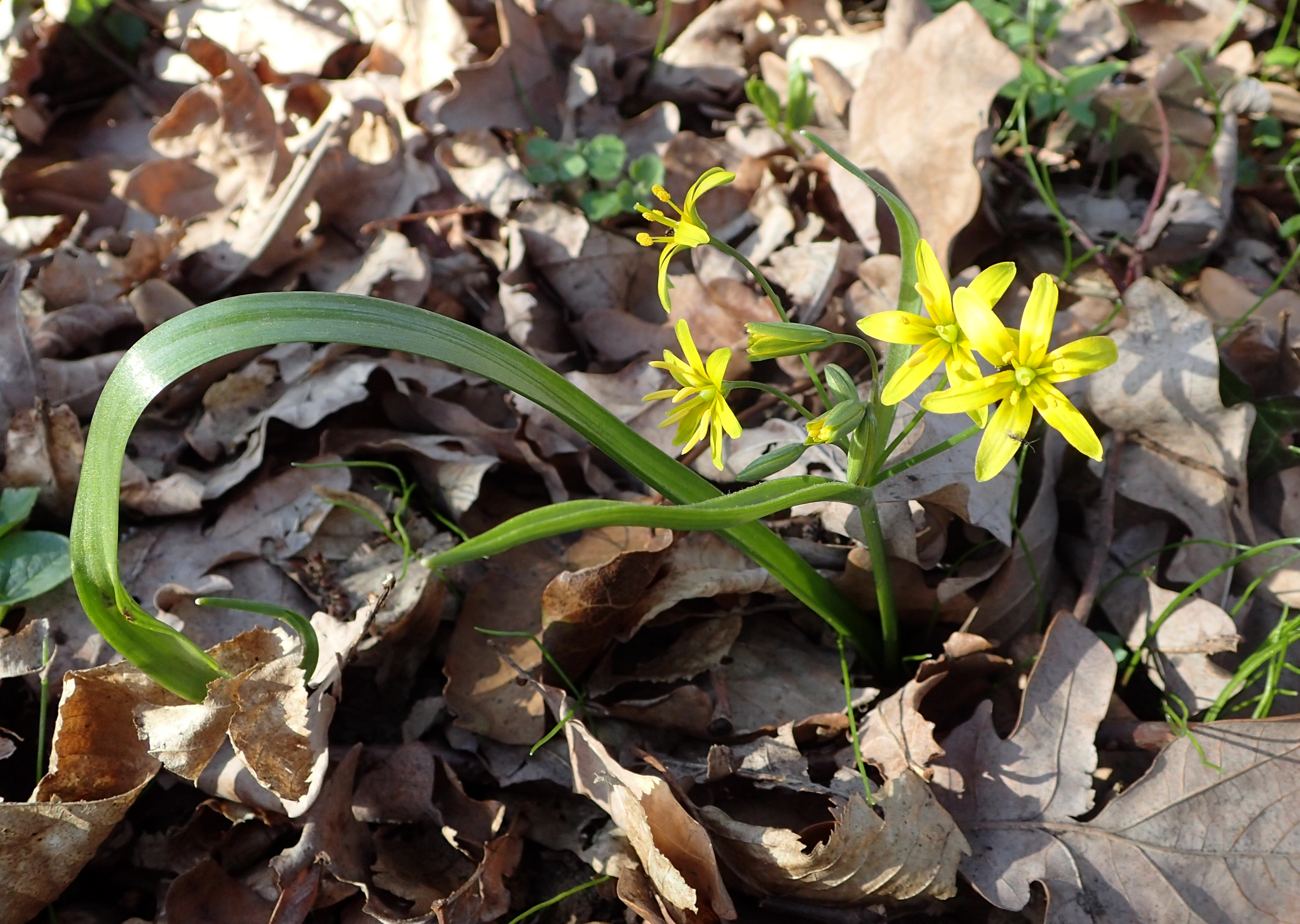 Gagea lutea in Płoty, NW Poland